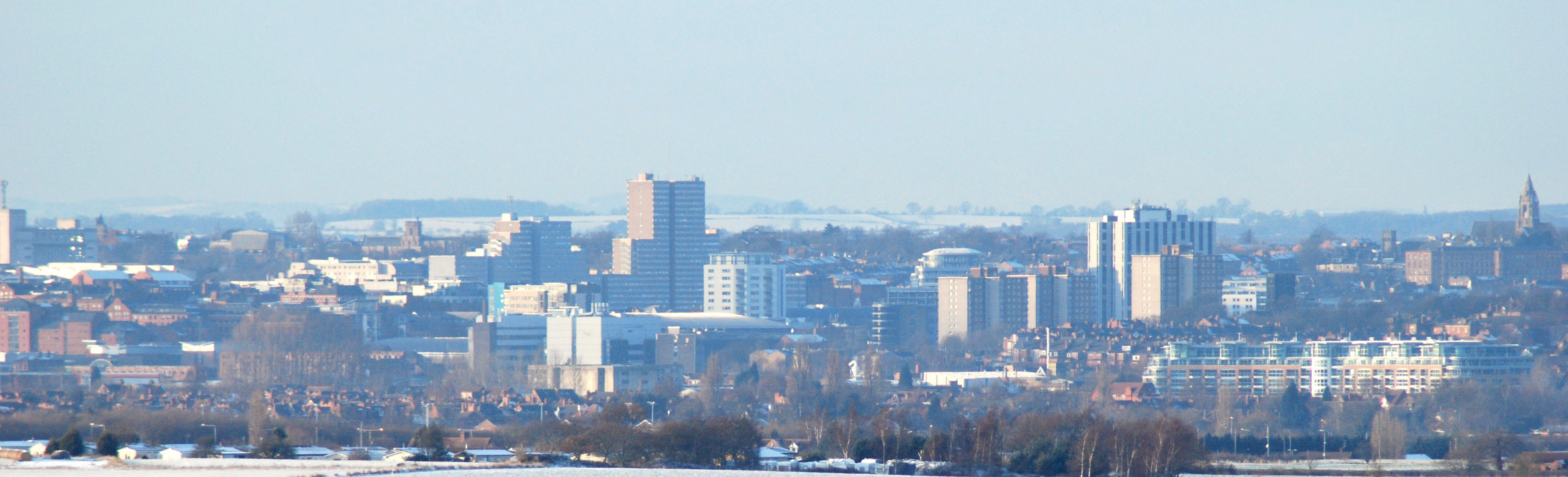 Cropped version of Russ Hamer's original image.